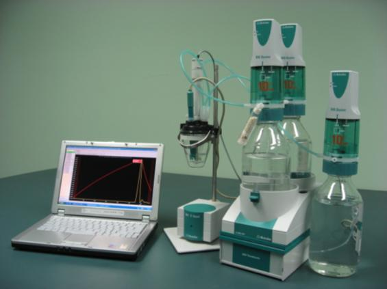 I am the originator of this image I am the originator of this image